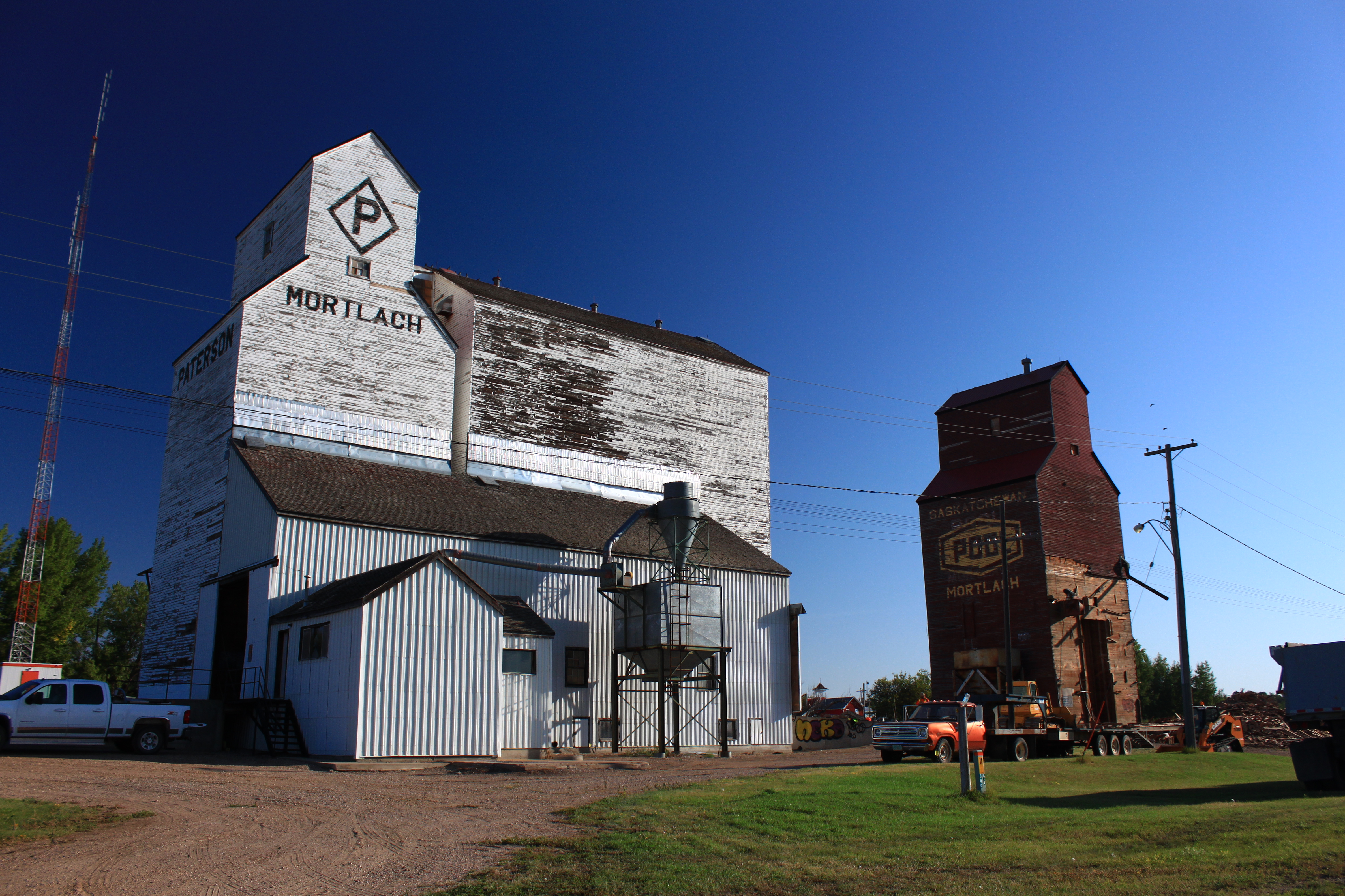 Grain elevators in Mortlach, Saskatchewan, Canada. The grain elevator on right under demolition.